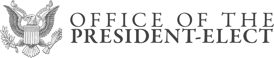 Logo of the Obama-Biden Transition Project, from their Office of the President-Elect website